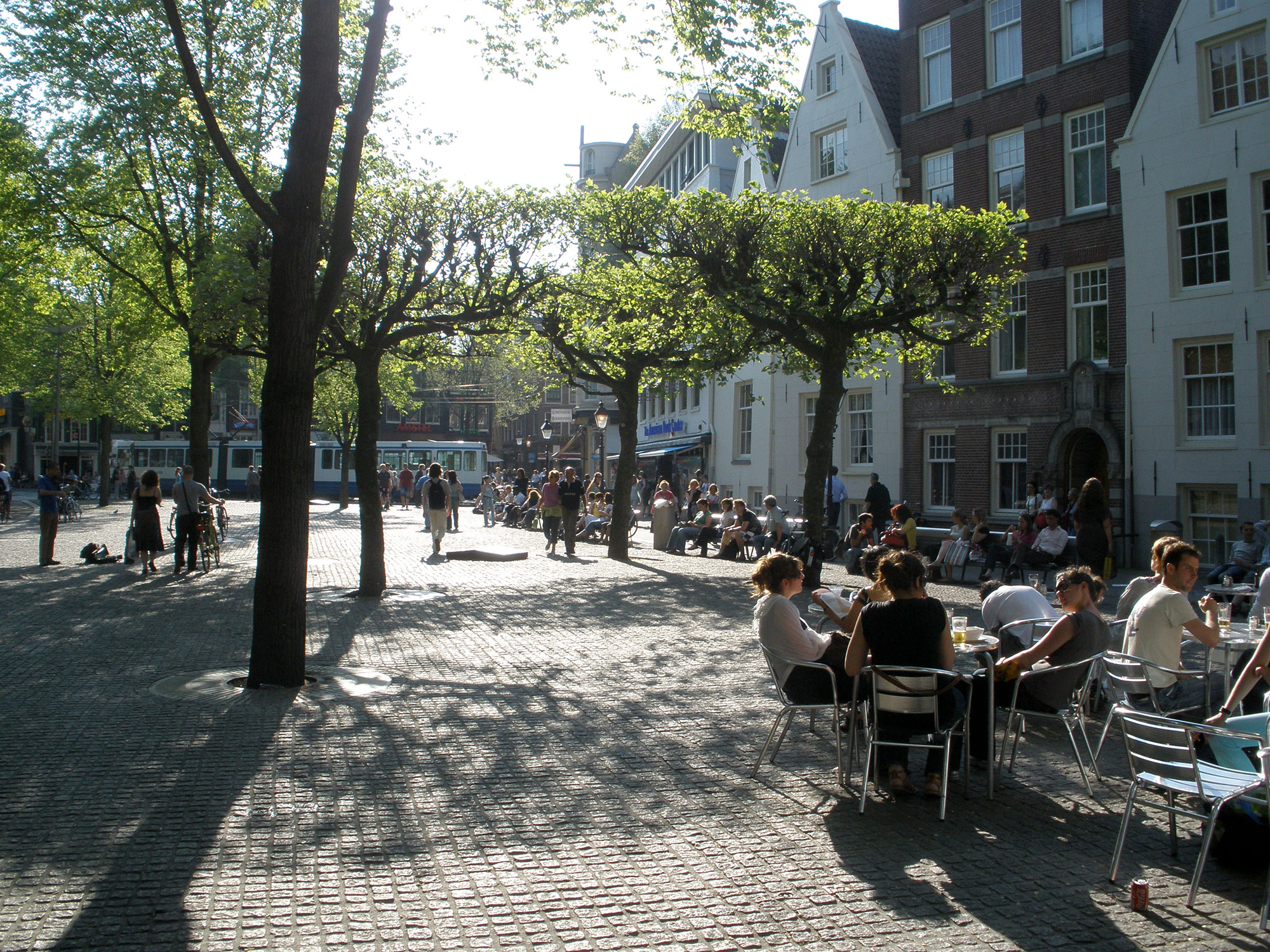 Spui square in Amsterdam. Note the entrance to the Begijnhof on the right